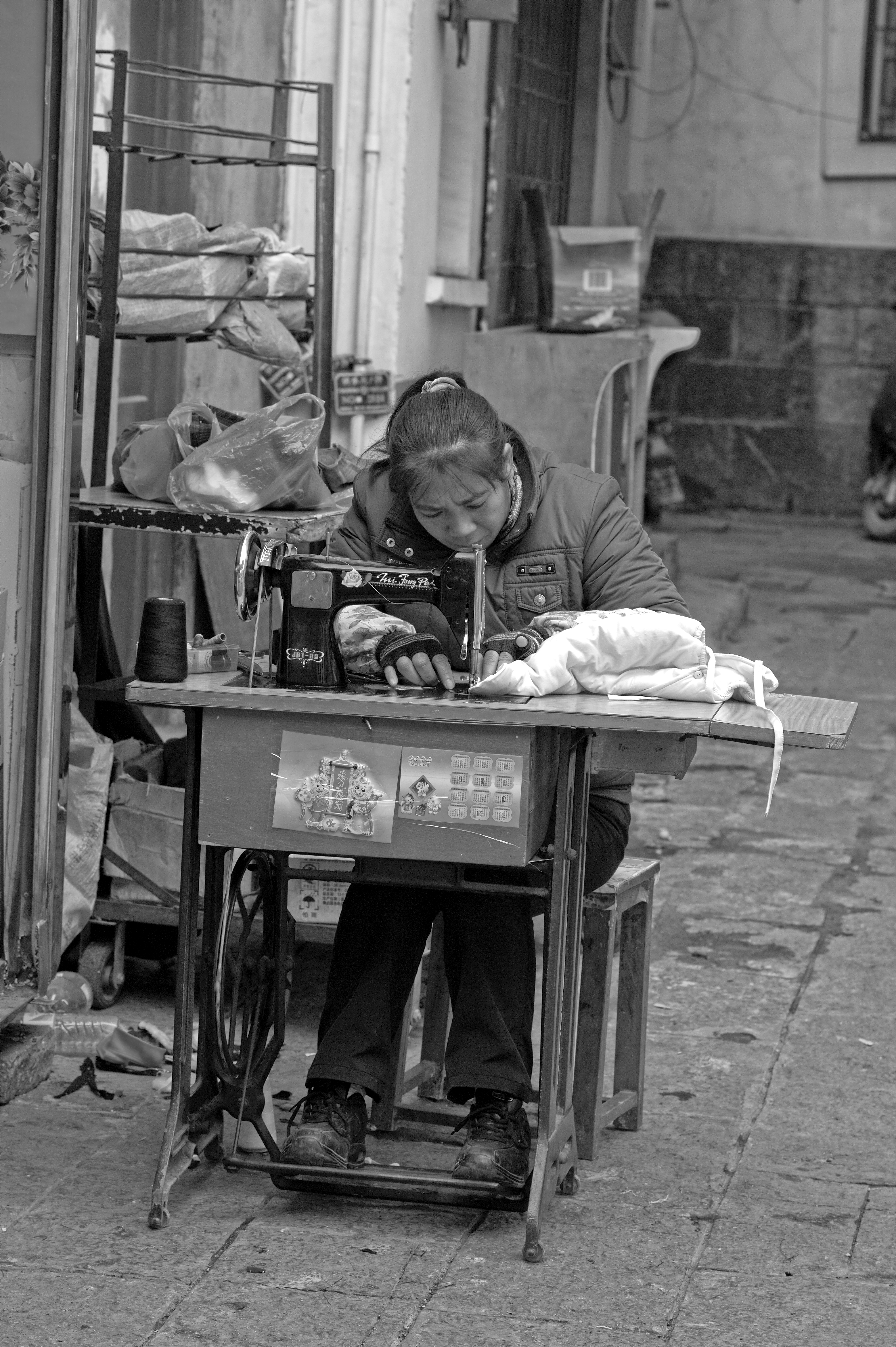 A woman is using a old machine to make dresses in the streets of Yangshuo, South of China.